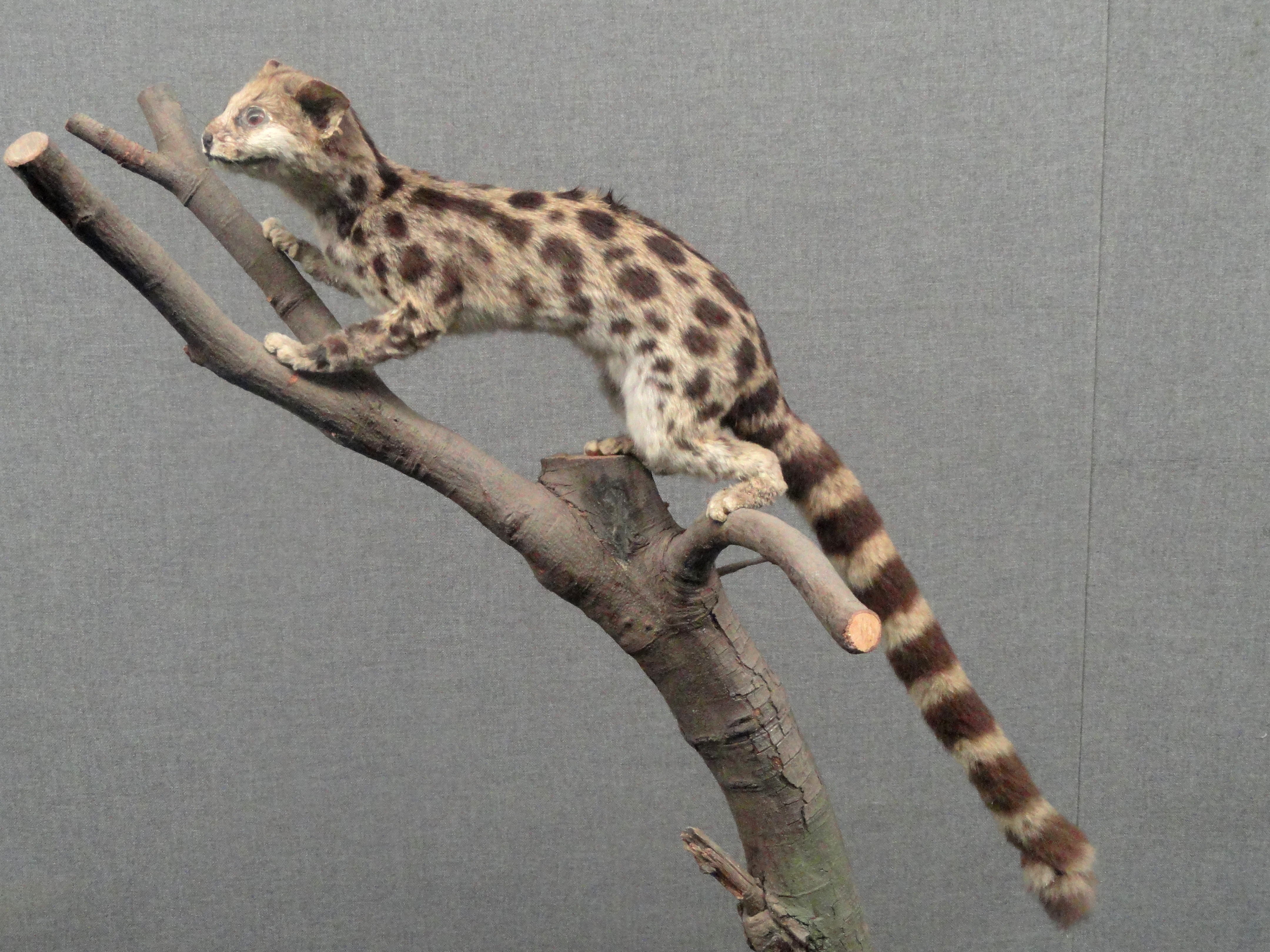 Taxidermy exhibit in the Kunming Natural History Museum of Zoology (昆明动物博物馆), Kunming, Yunnan, China.